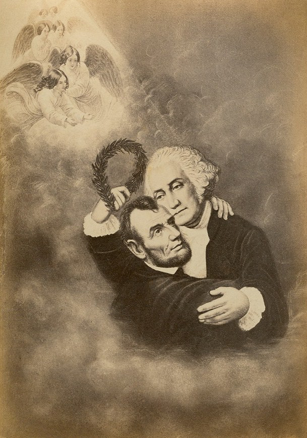 The Apotheosis of Lincoln, Abraham Lincoln and George Washington; eBay store Web page states: "Original vintage photograph from the rendering Albumen silver print, [...] 1860s" 6 1/4 x 8 5/8in. (photo)"